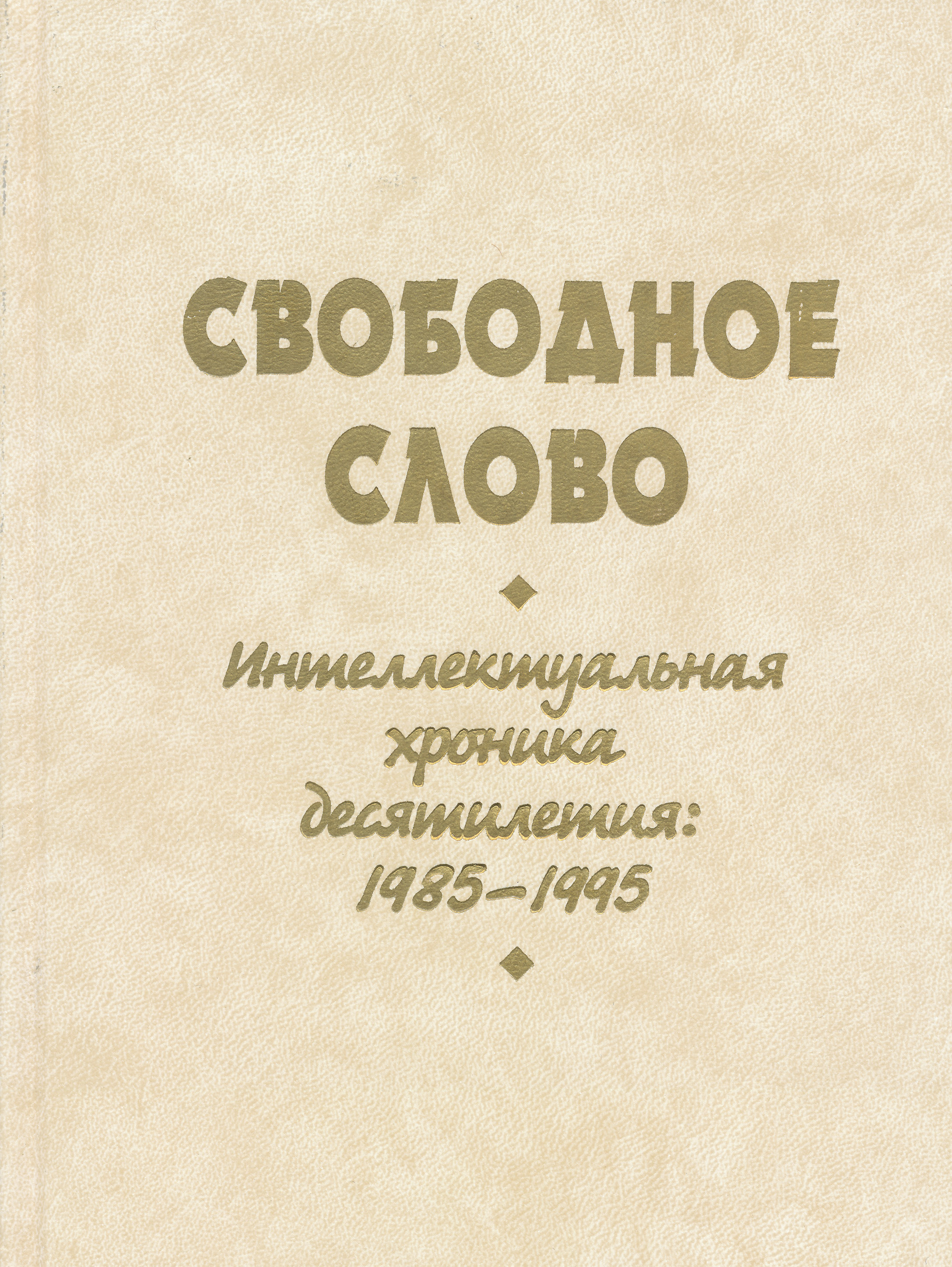 Cover of the first release of the almanac "The Free Word"